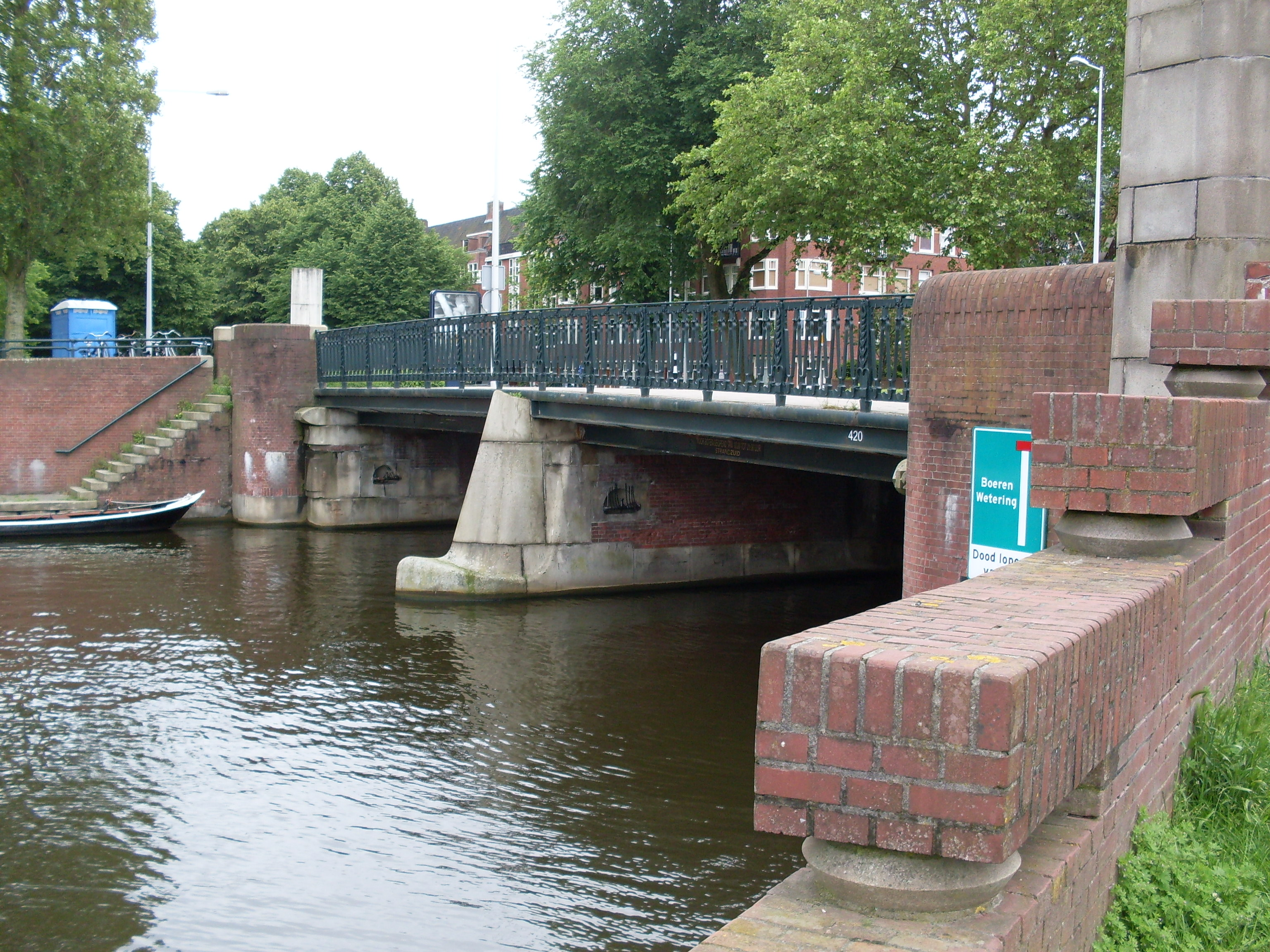 Brug over de Boerenwetering. Kinderbrug.